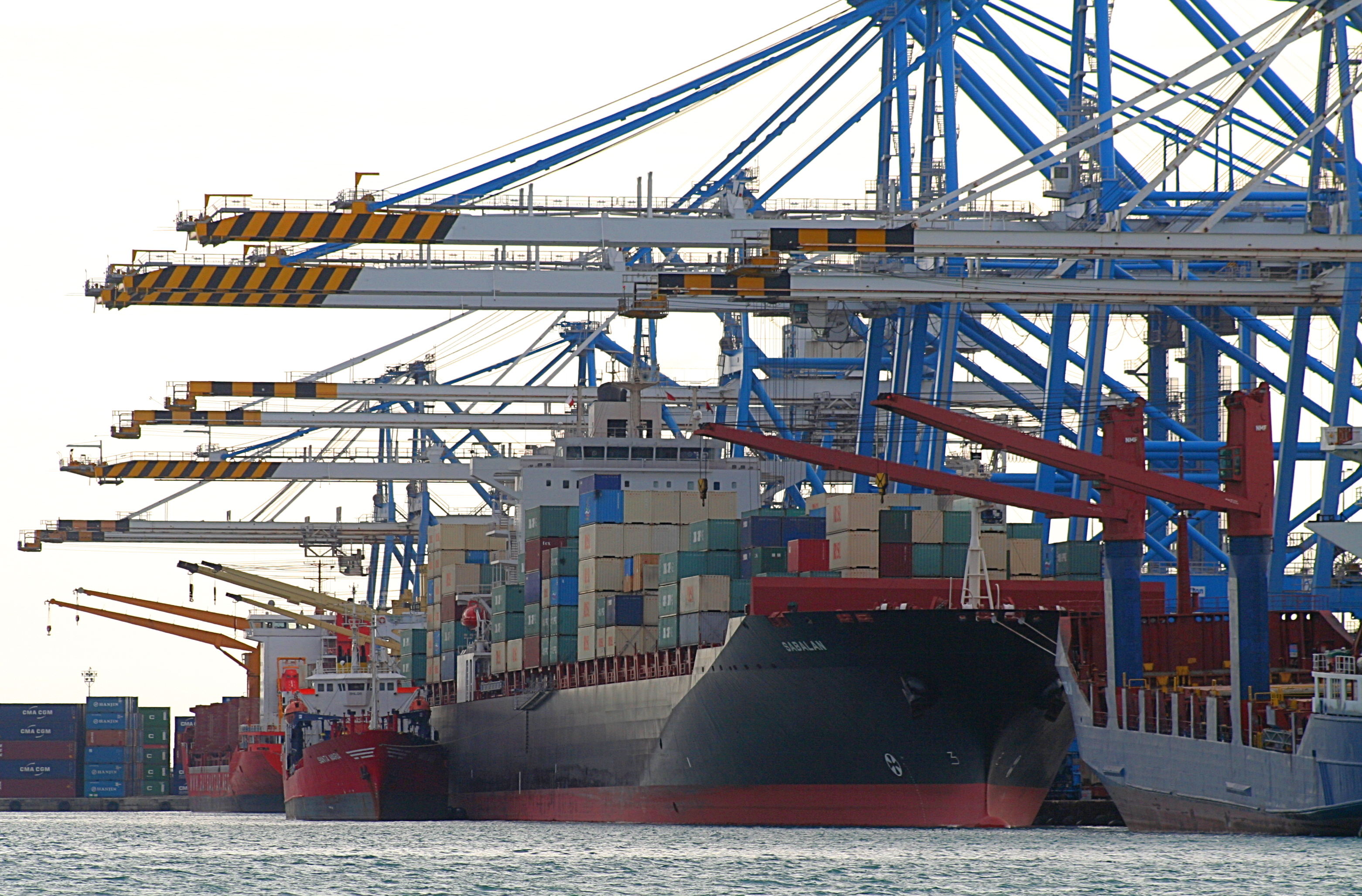 Freeport is a large container ship terminal on the south east coast of Malta. Given it's central location in the middle of the Mediterranean and deep waters Malta makes an ideal transportation hub for sea going cargo Sabalan: IMO Number: 9346524 MMSI Number: 249345000 Callsign: 9HPZ9 Length: 294 m Beam: 32 m